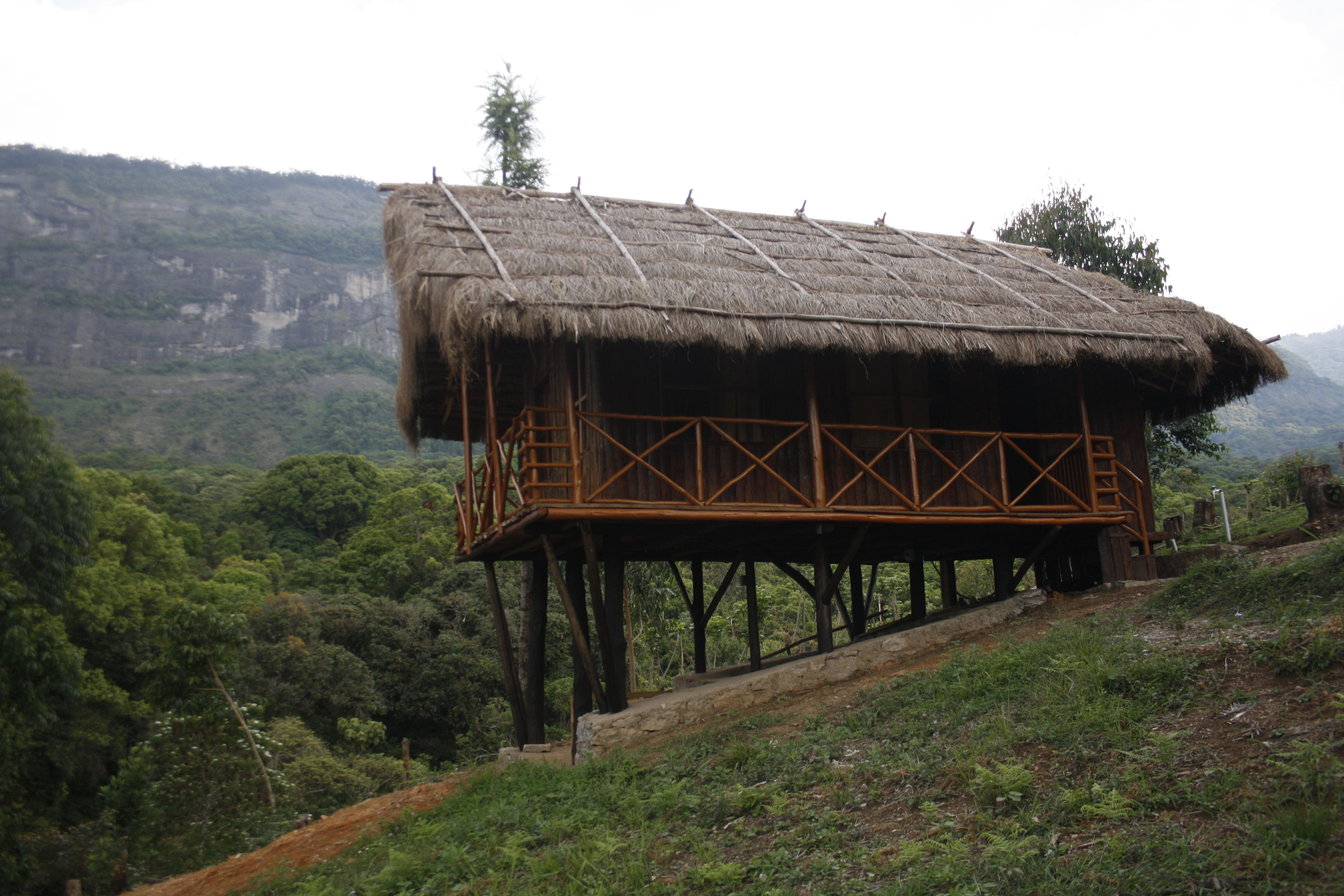 Kanthalloor landscape